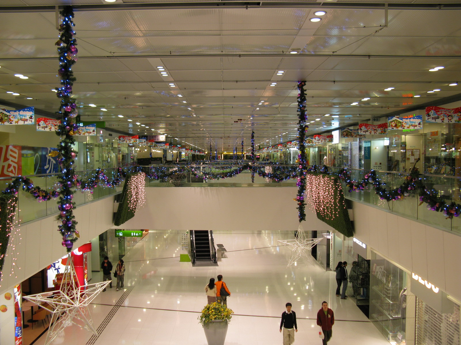 將軍澳中心商場部分 Park Central